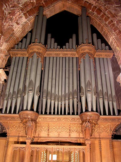 View of the front of the organ of St Bees Priory, Cumbria. The last major instrument to be personally supervised by "Father" Henry Willis; built 1899